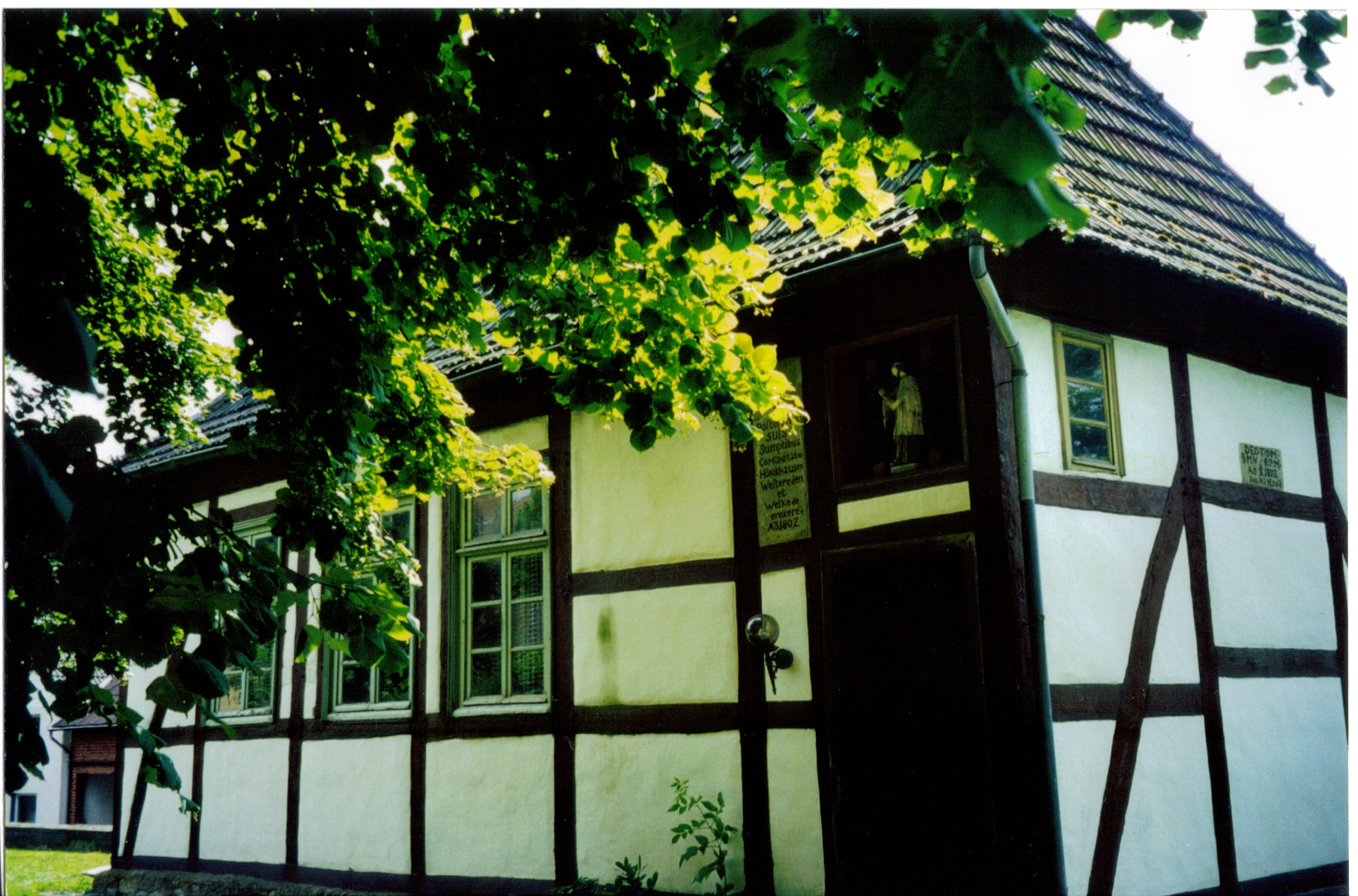 Old school building in Rüthen-Hoinkhausen, Germany